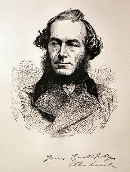 Portrait of John Leech, cartoonist to Punch magazine